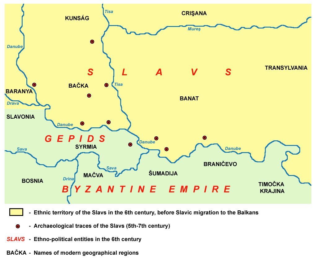 historical map of old Slavs in Vojvodina (Banat, Bačka and Syrmia) in the 6th century, before Slavic migration to the Balkans.